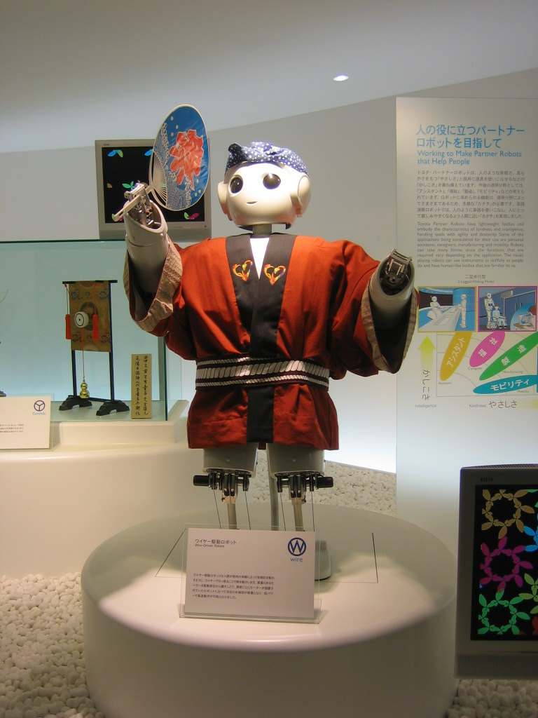 Toyota Partner Robot utilizing a unique wire system.